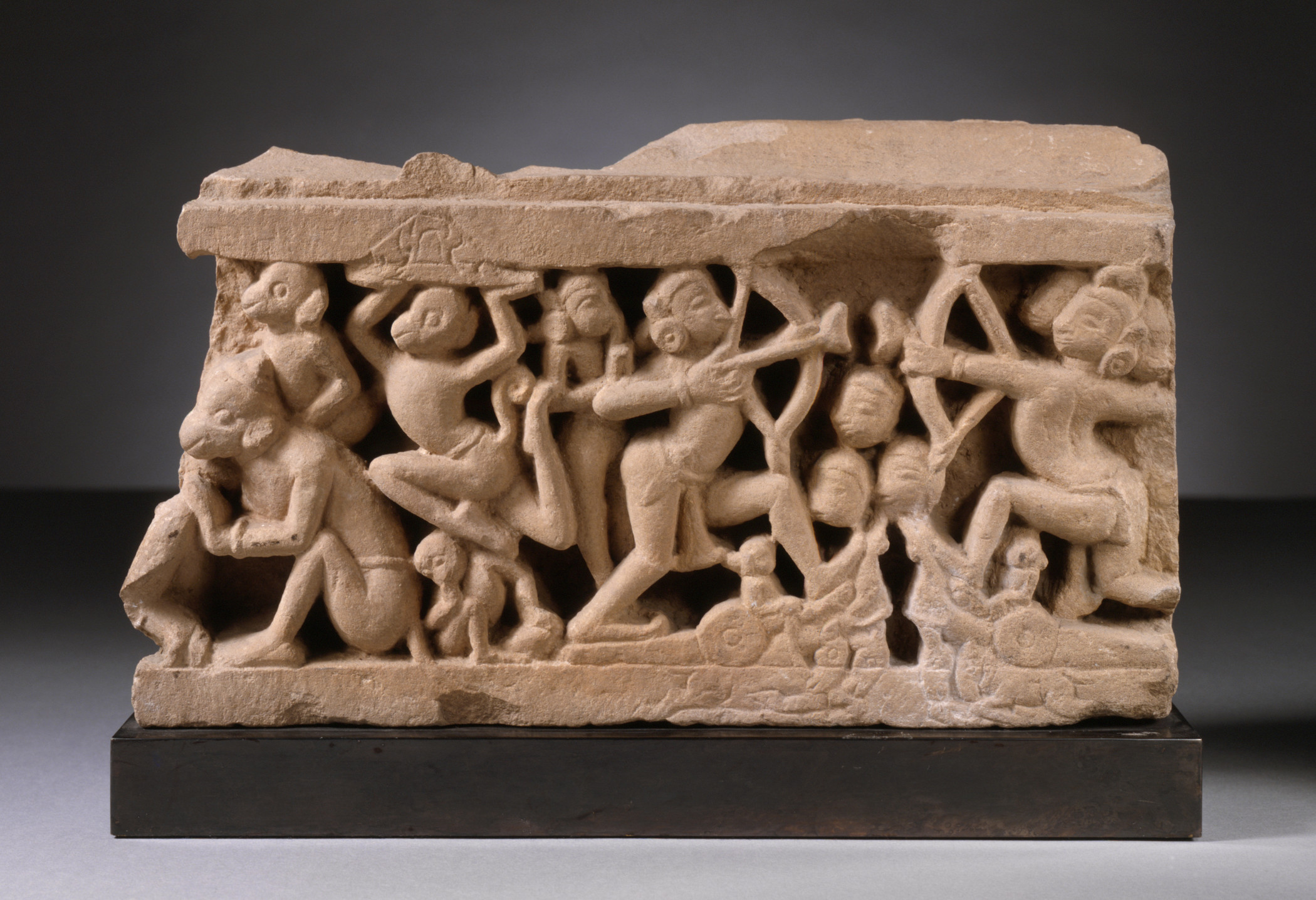 Hanuman Carrying the Mountain of Medicinal Herbs (left); Rama Battles Ravana (right), Architectural Panel with Ramayana (Adventures of Rama) Scenes